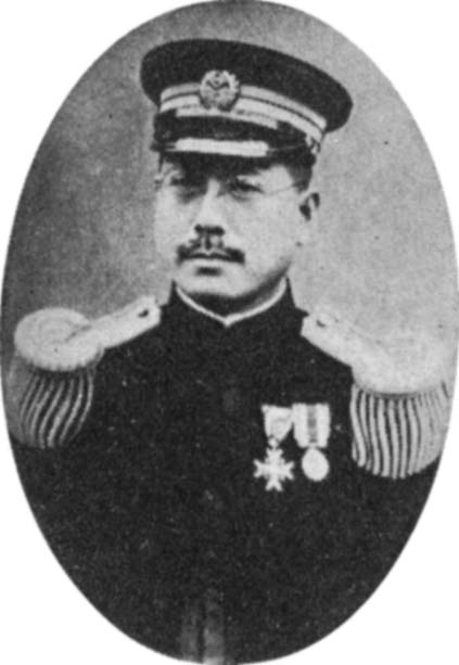 Mr. Shōkichi Shihota.